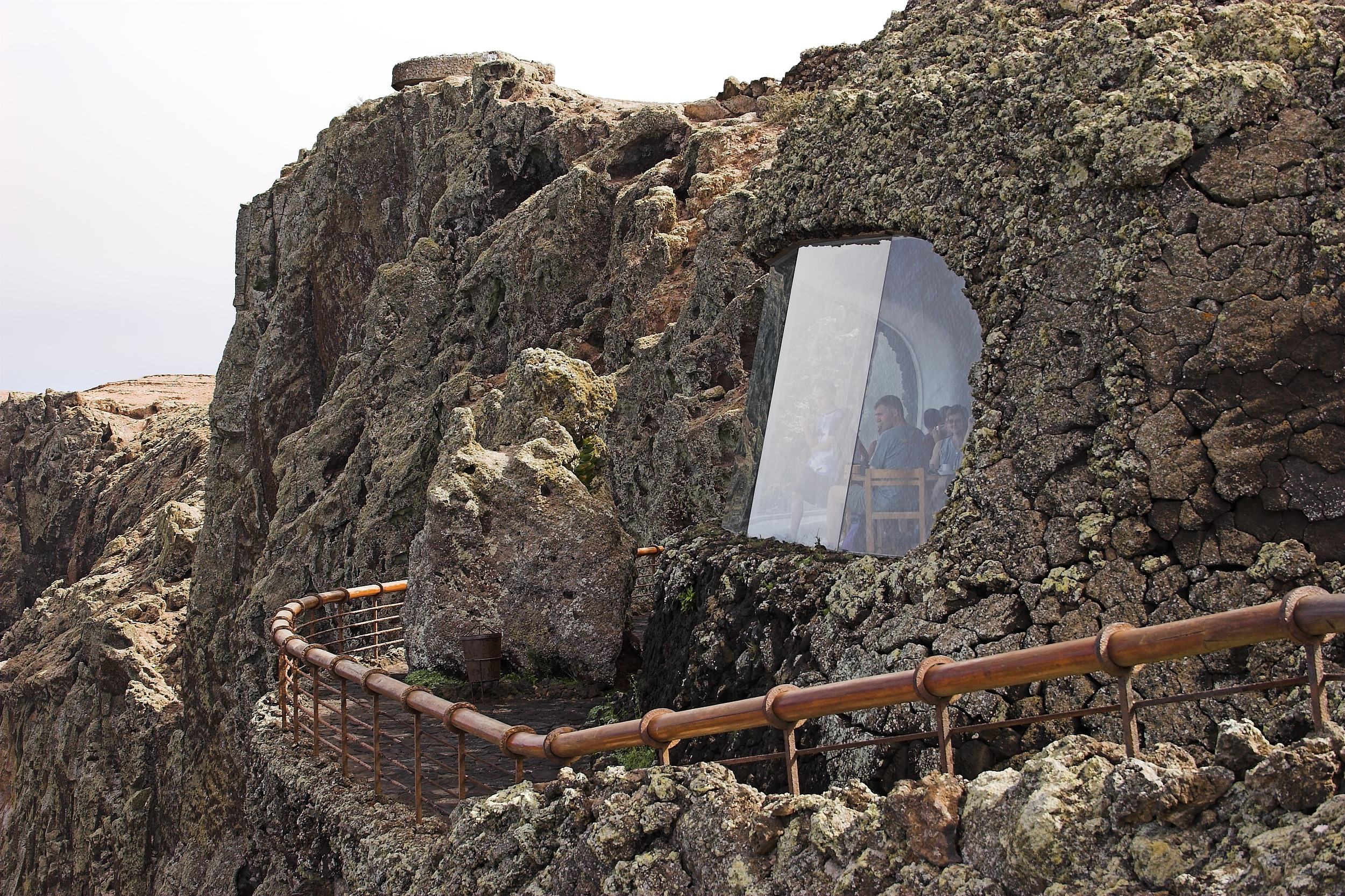 Mirador Del Rio on Lanzarote